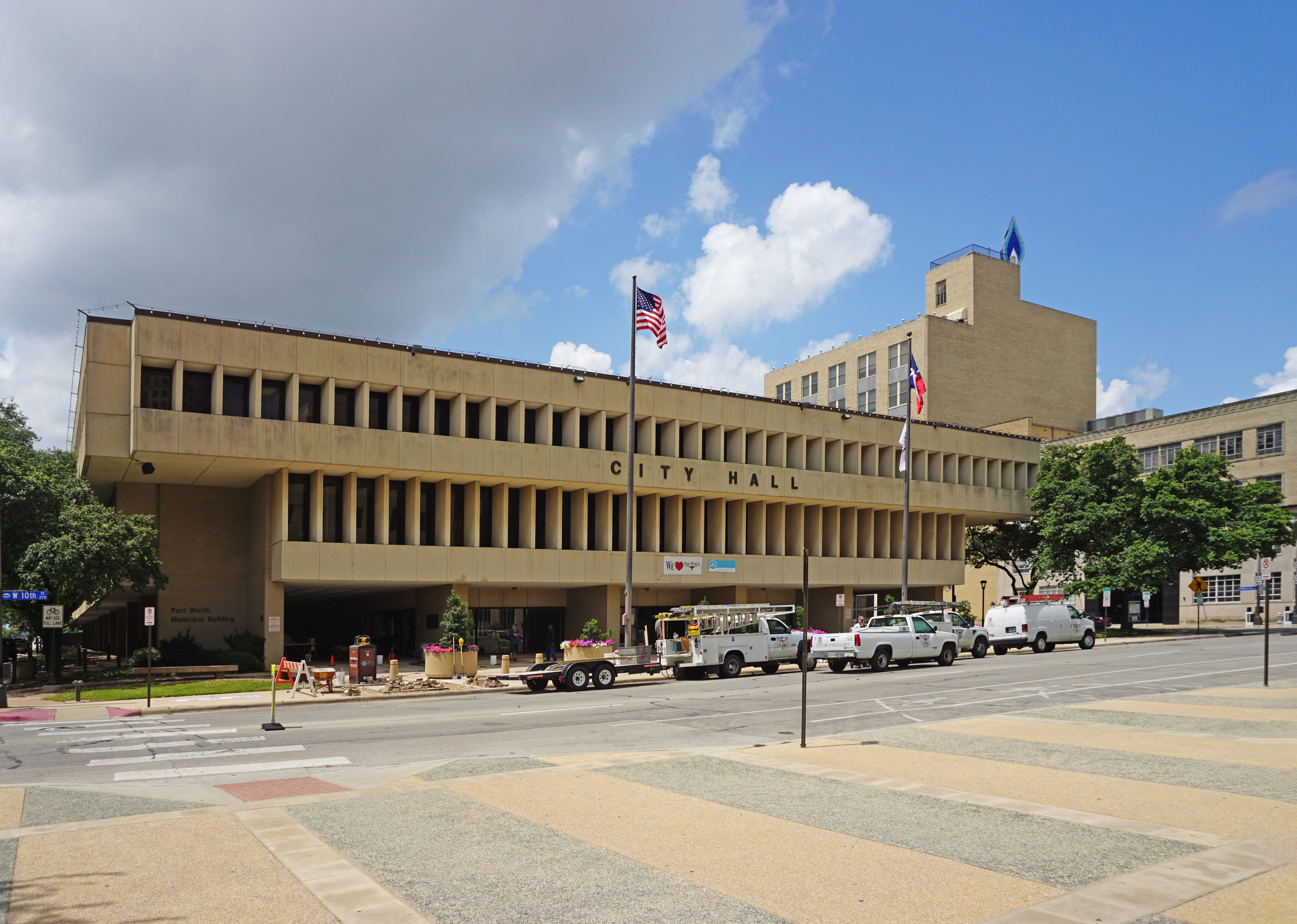 City Hall in Fort Worth, Texas (United States).